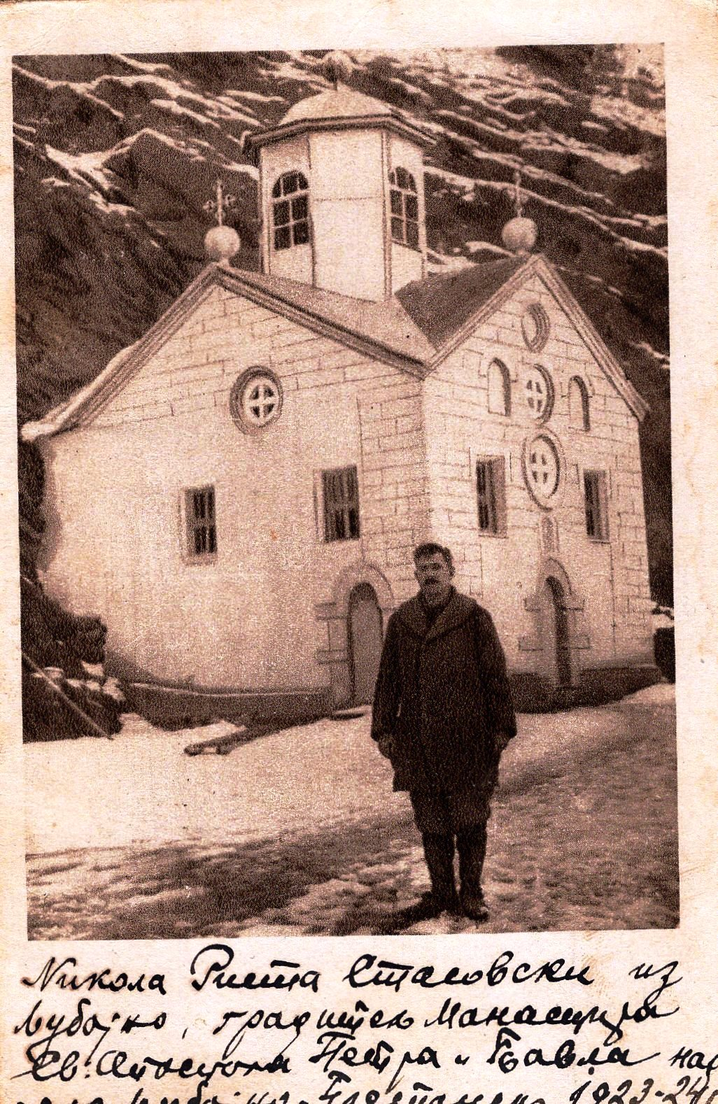 A monastery in Macedonia, 1923. This media file is produced by Wikipedian in Residence in Category:Wikipedian in Residence at DARM in 2017.